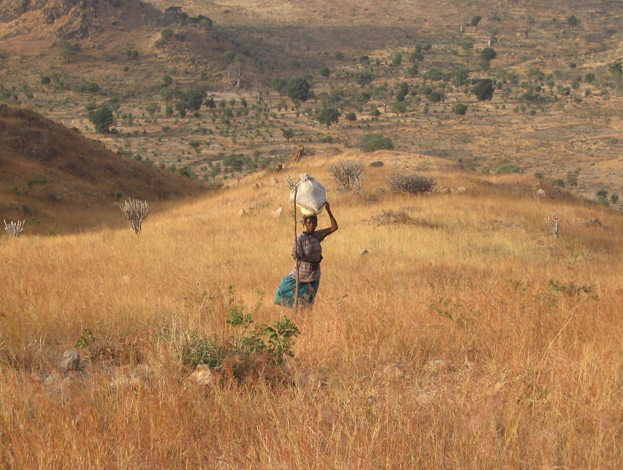 Kapsiki woman climbing a hill outside Rhumsiki, Far North Province, Cameroon.